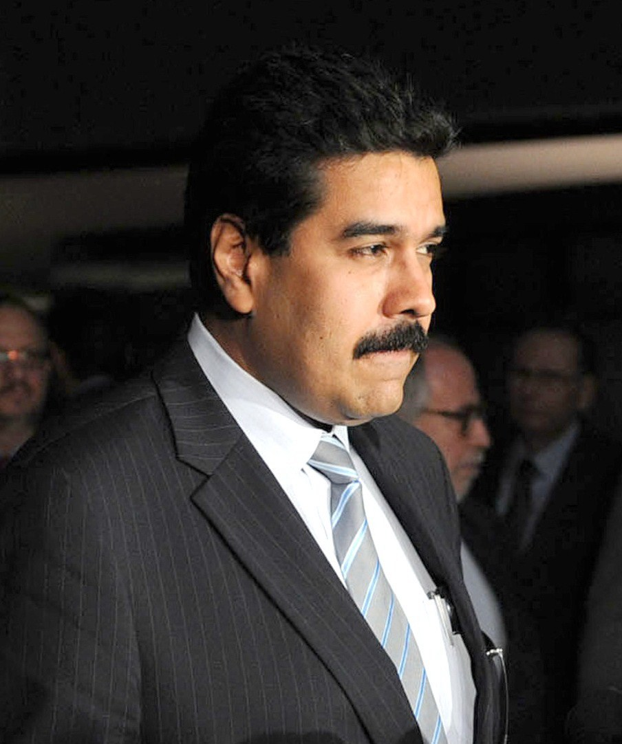 Nicolás Maduro Moros, interim President of The Boliviarian Republic of Venezuela following the death of Hugo Chávez.